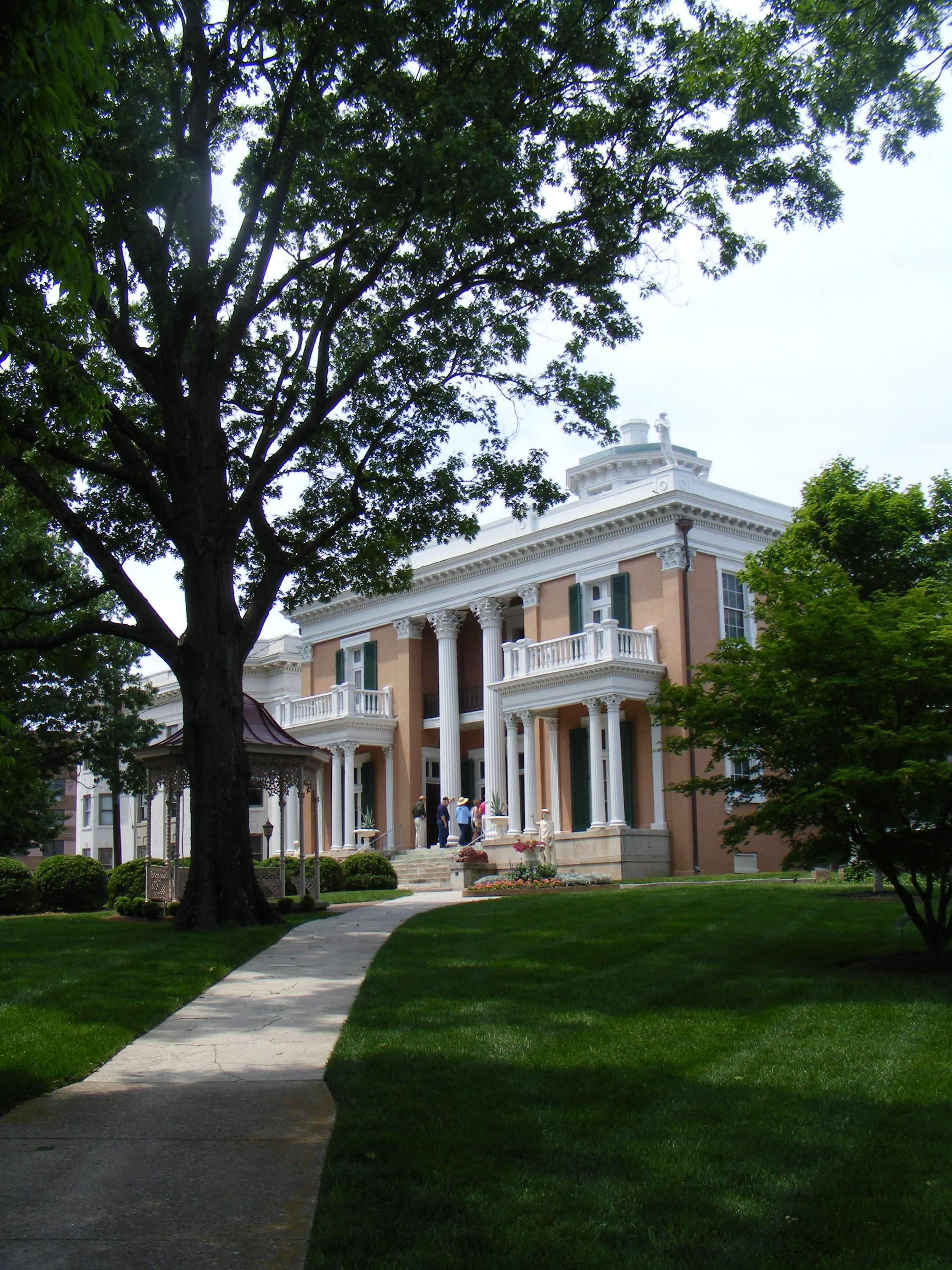 Belmont University in Nashville, Tennessee.